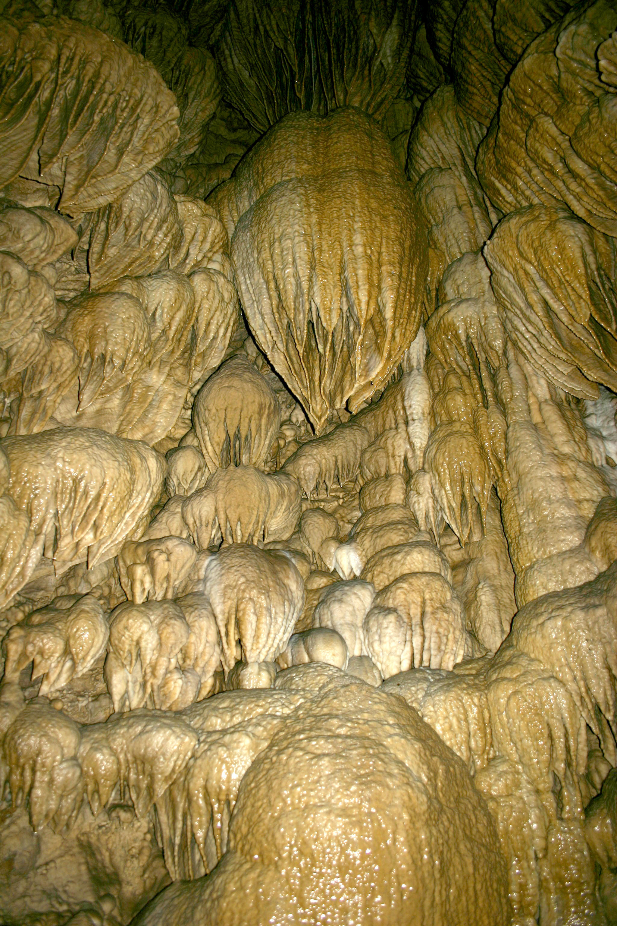 Visitors to this room must crane their necks and watch their feet! The room is a speleogen called a domepit, where a cave waterfall has slowly carved out a massive vertical hole through the rock. As the water slows, dozens of drapery formations grow down the side. The water which still comes through leaves a pool in the center of the room which visitors must step around.